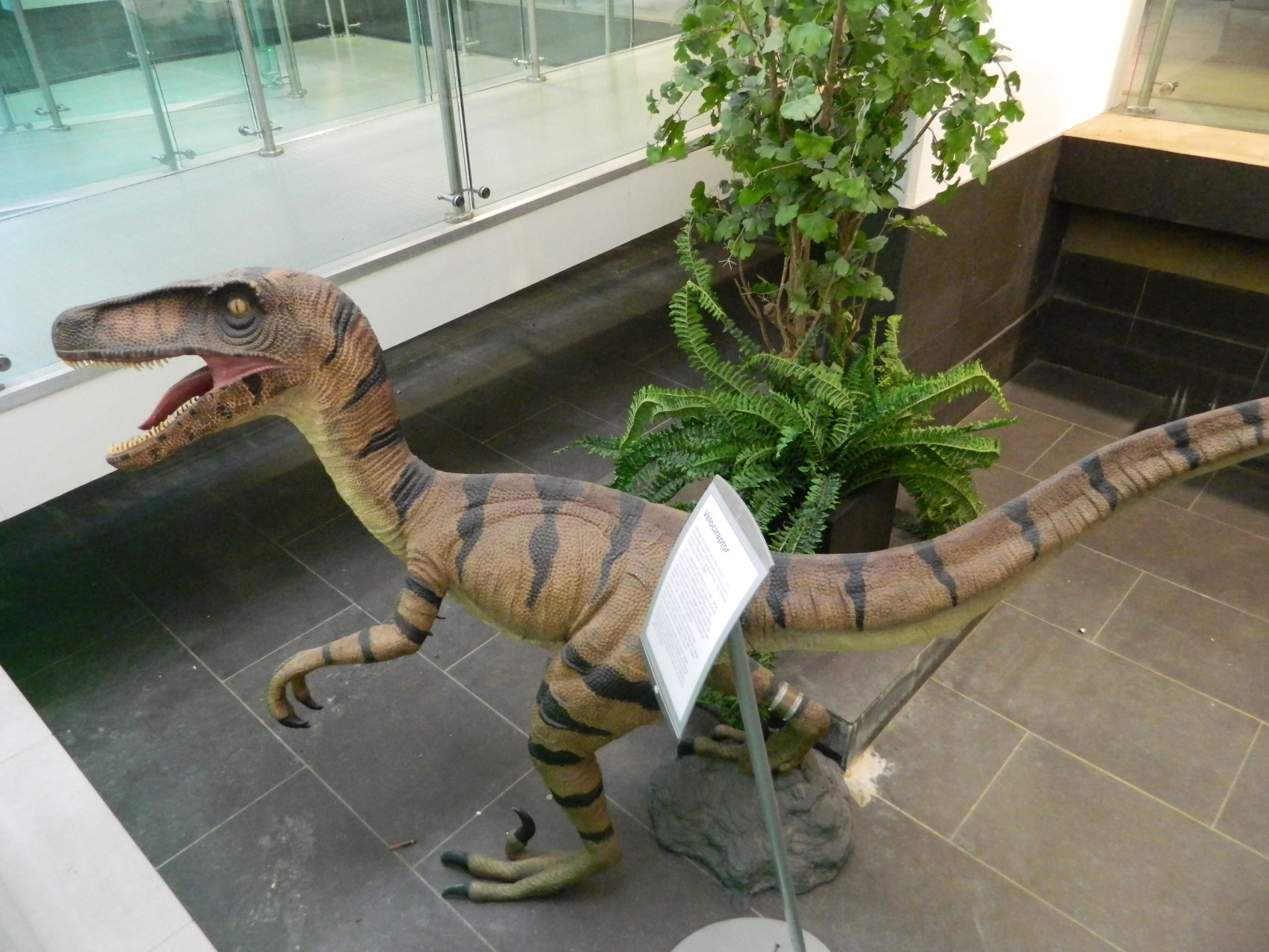 Model Velociraptor, Ulster museum